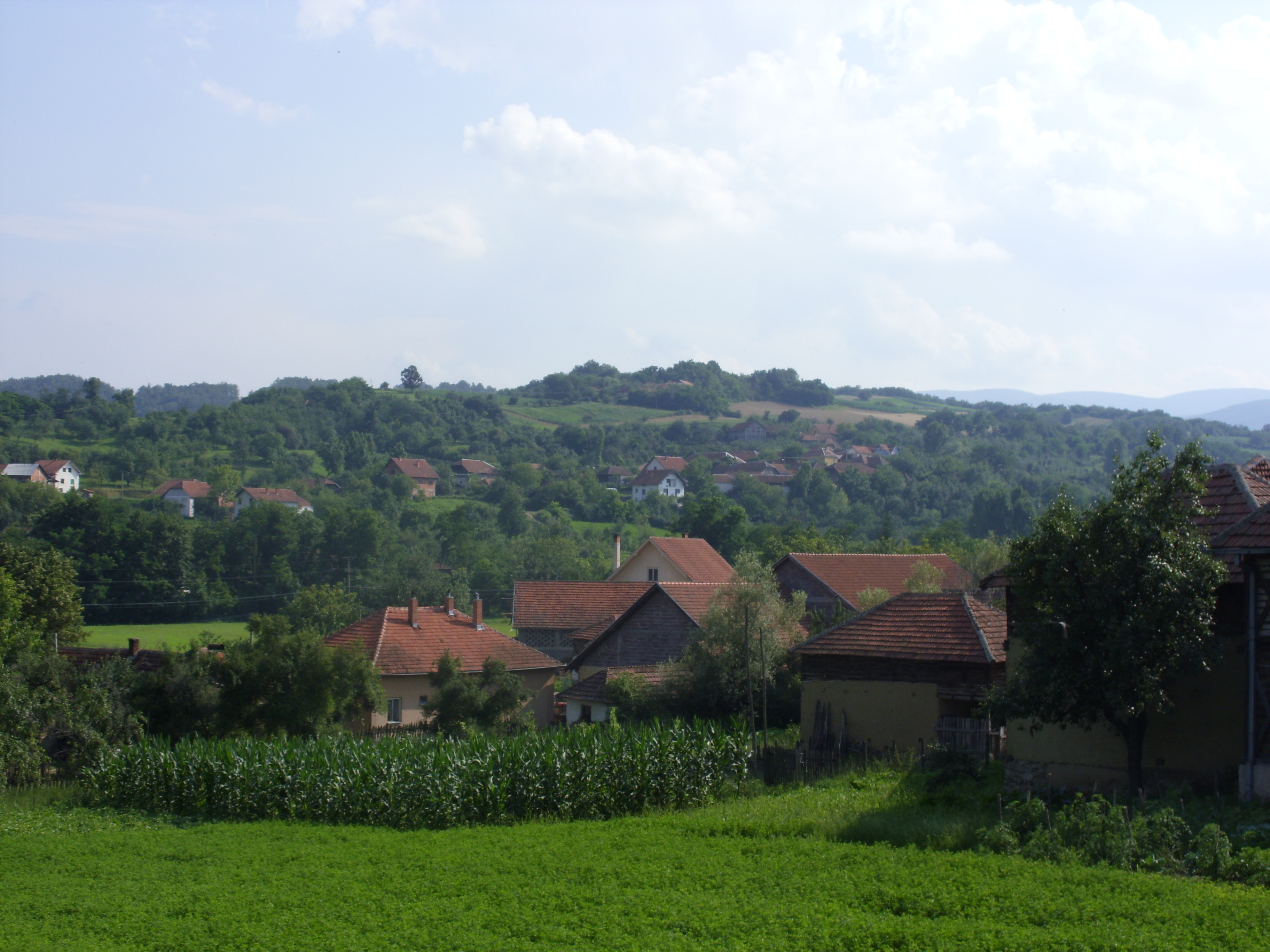 village of Lupten, Aleksinac Municipality, Serbia